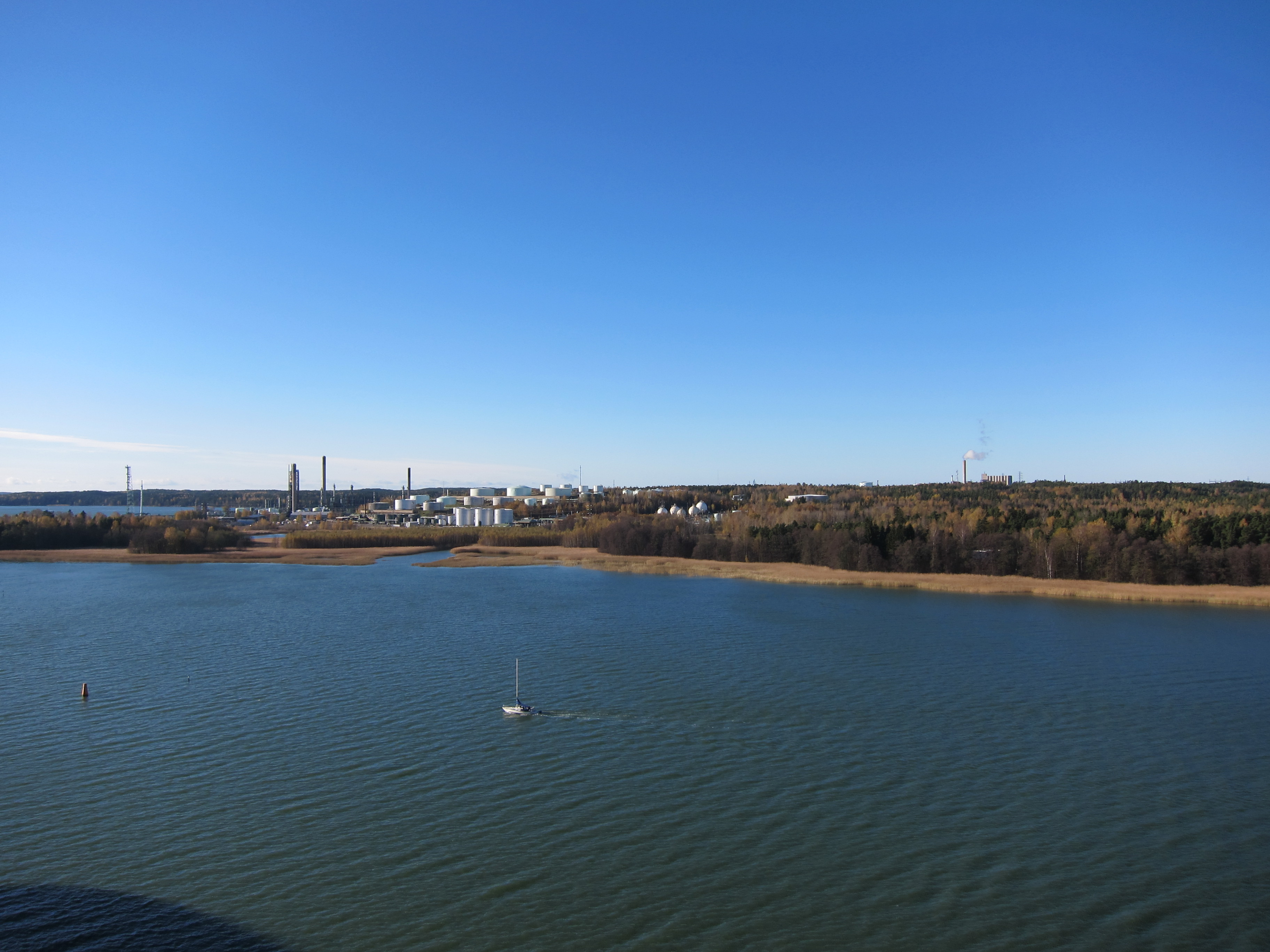 View from MS Allure of the Seas at STX Europe shipyard Turku, Finland. In the foreground is located Naantali refinery owned by Neste Oil in the city of Naantali. Also in the foreground grow much Phragmites (Common reed) (Phragmites australis).